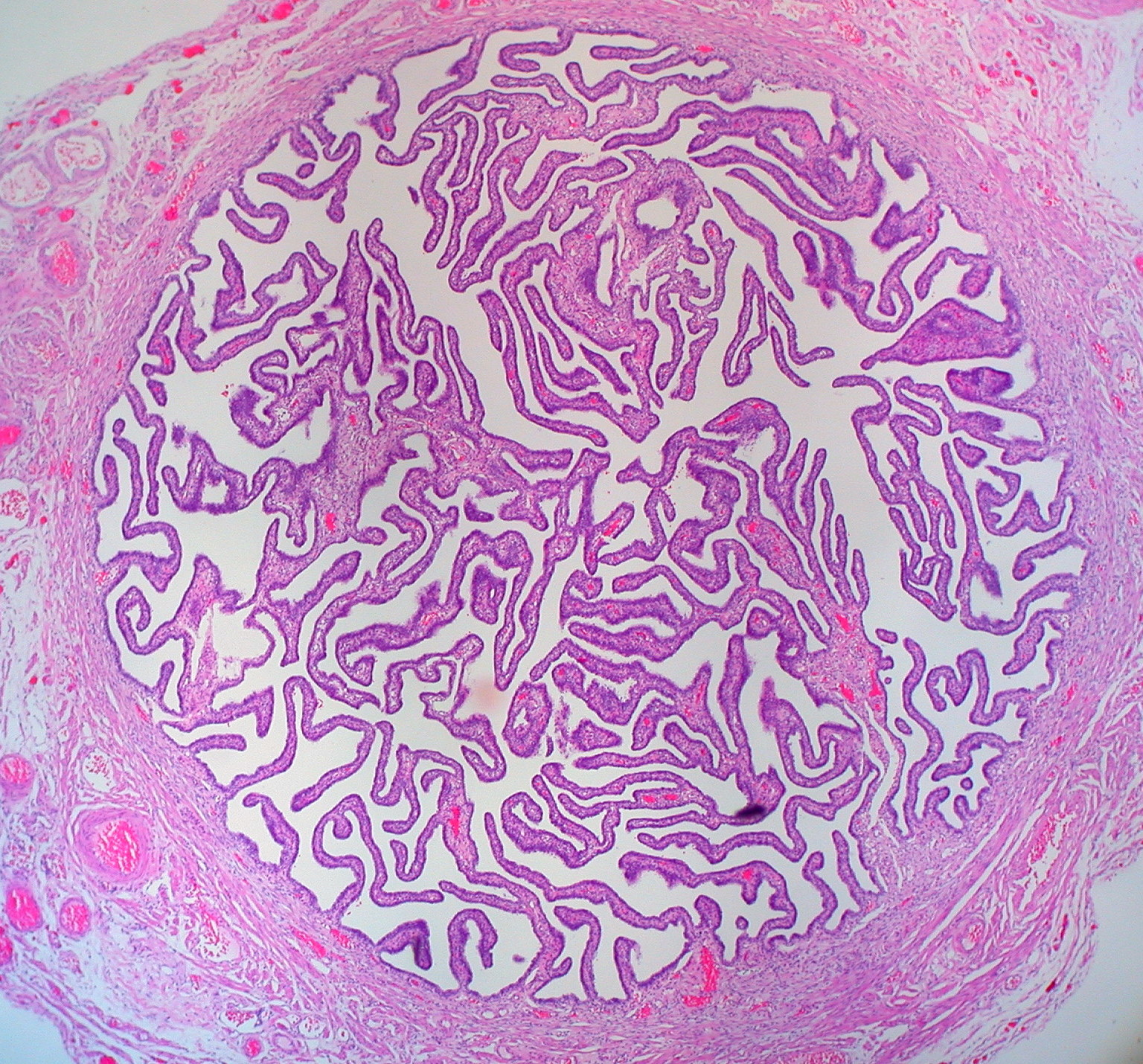 Cross-section of tube segment removed in the course of surgical tubal ligation.